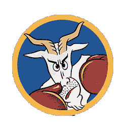 Patch of the USAAF 51st Fighter Squadron (World War II)